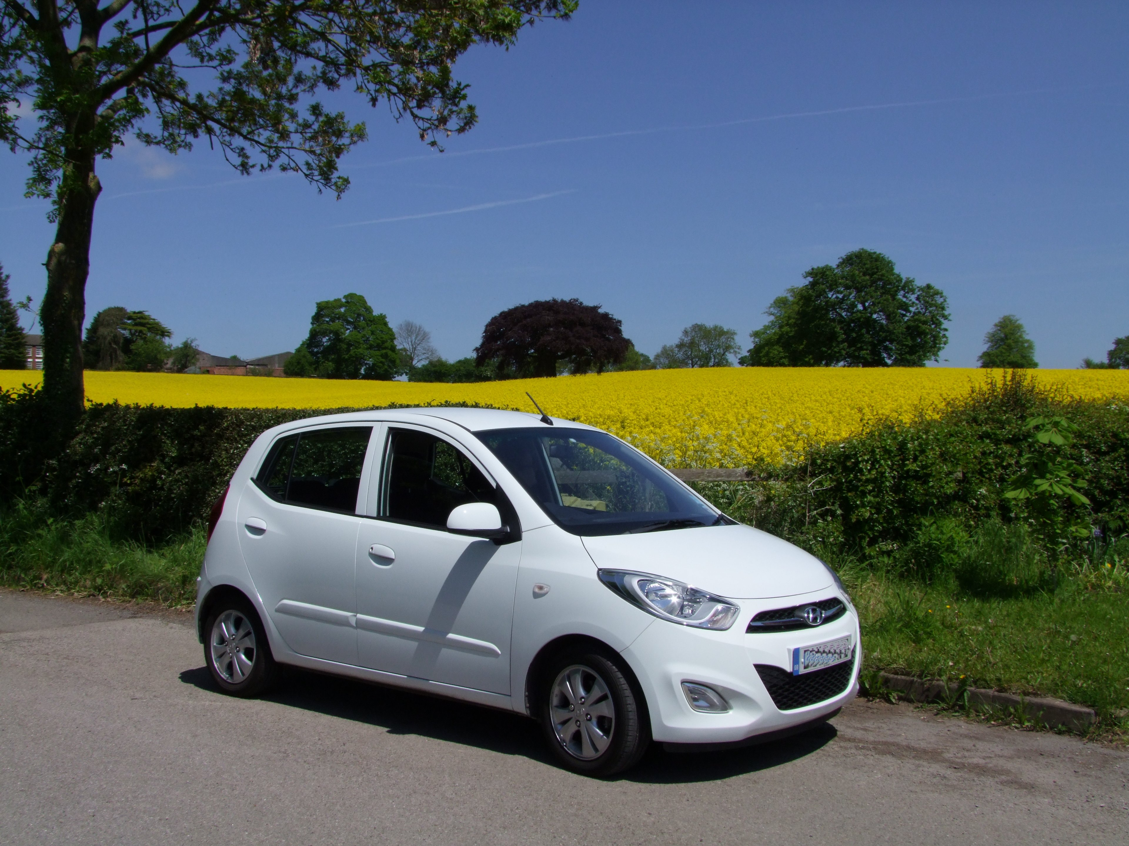 Hyundai i10 parked beside a Rapeseed Field at Cheadle Staffordshire My second new Hyundai. Very good on fuel comsumption and cheap road tax